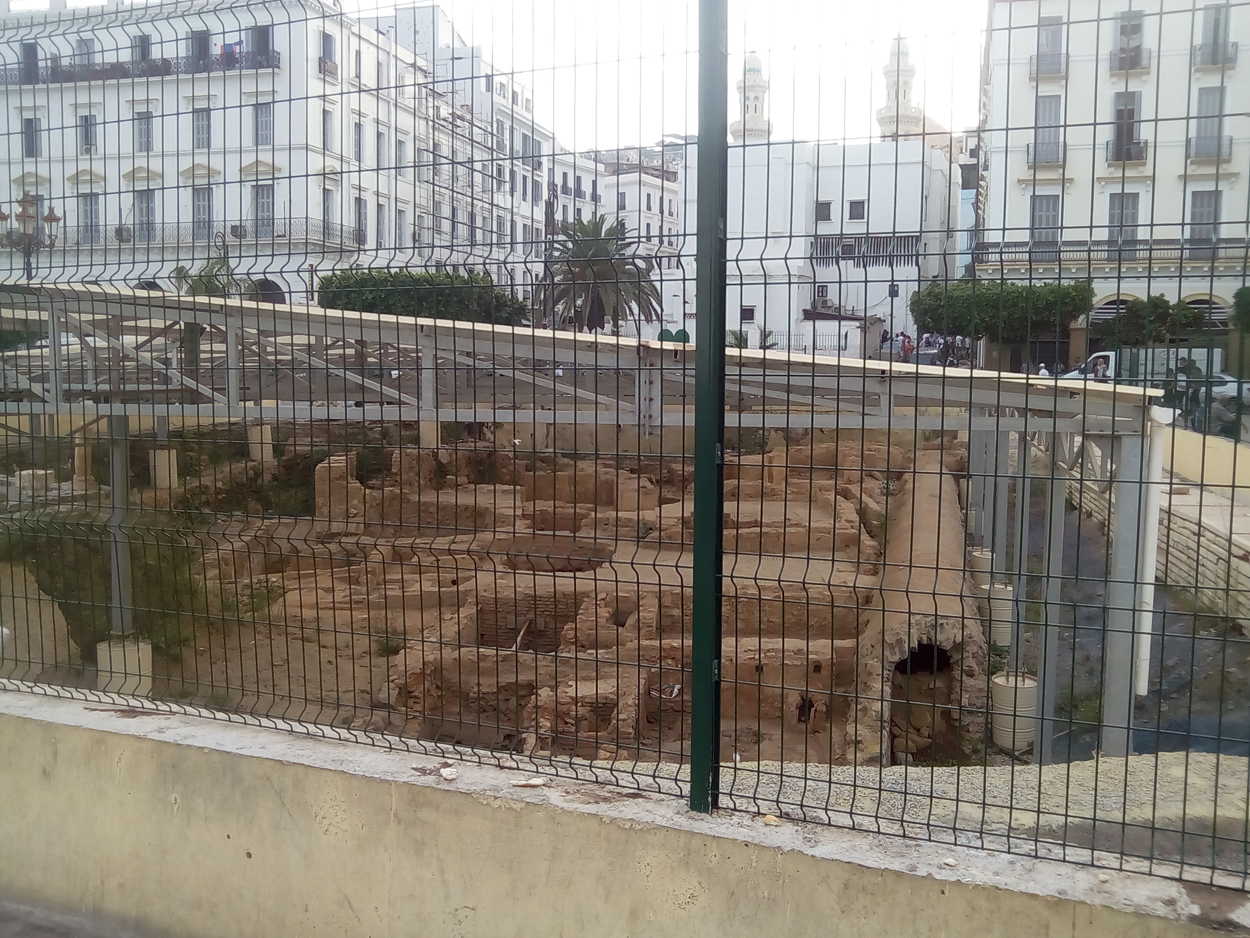 An archaeological site in Algiers (Algeria), found during metro works. The site includes Phoenician, Roman and Ottoman monuments and it is located near the Phoenician the ancient city of Icosium